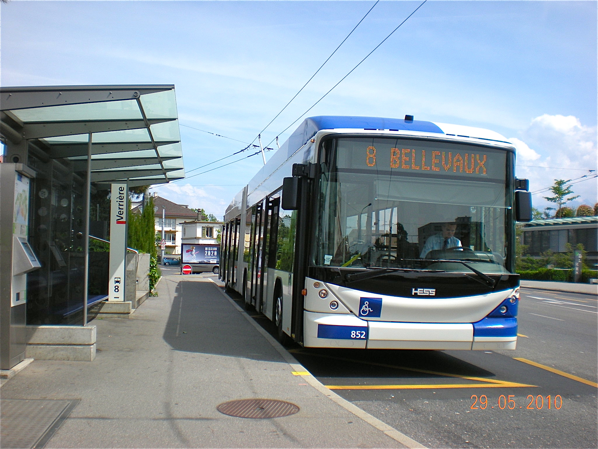 A trolleybus of Lausanne in the south terminal of the line 8.